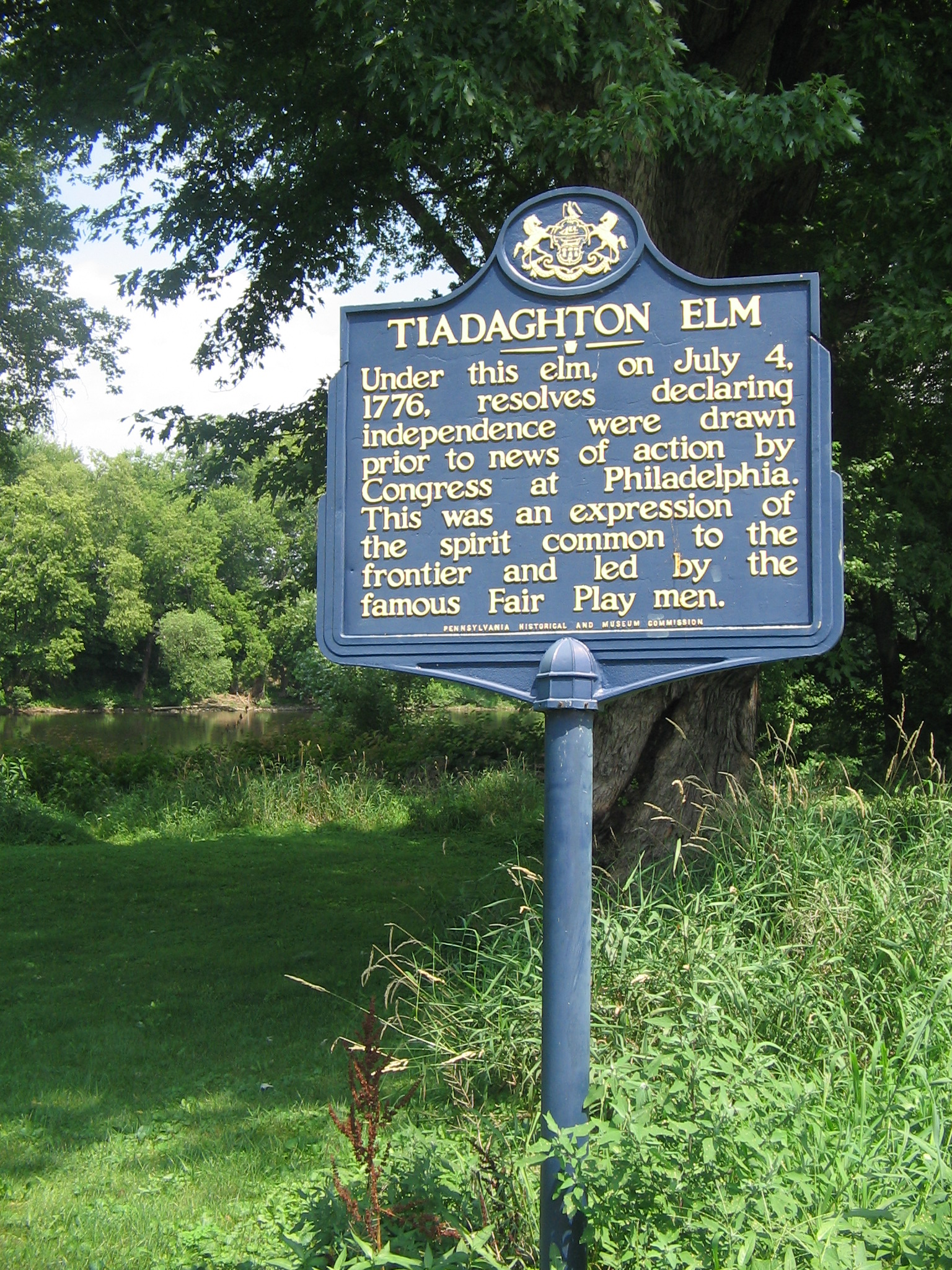 Pennsylvania Historical Marker on the Tiadaghton Elm and Fair Play Men near the confluence of the West Branch Susquehanna River and Pine Creek, west of Jersey Shore in Clinton County, Pennsylvania, USA. (The elm no longer stands, having died in the 1970s).